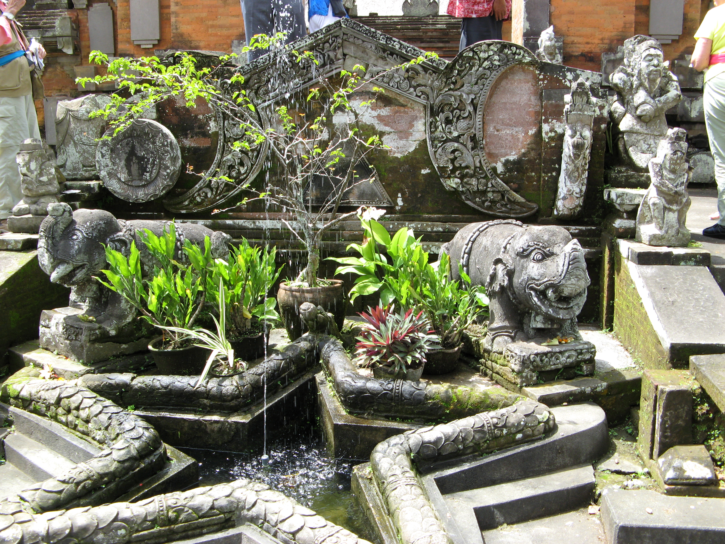 This chronogram, a kind of rebus, is located at the temple's entrance. It reads "sun moon elephant elephant," or Saka date 1188. Adding 78 years, this corresponds to 1266 AD in the Western calendar. The chronogram is of modern construction.